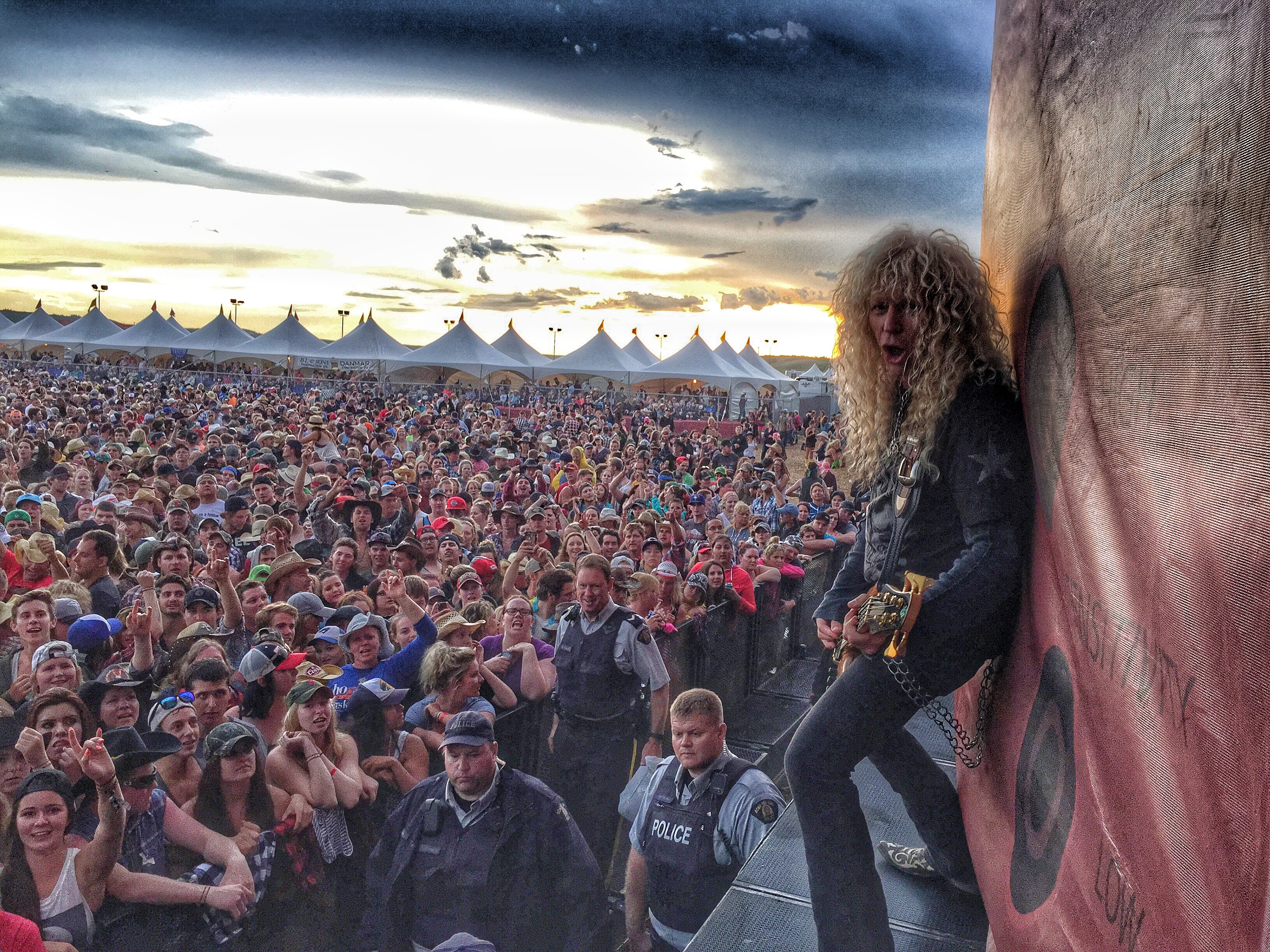 Perry Richardson